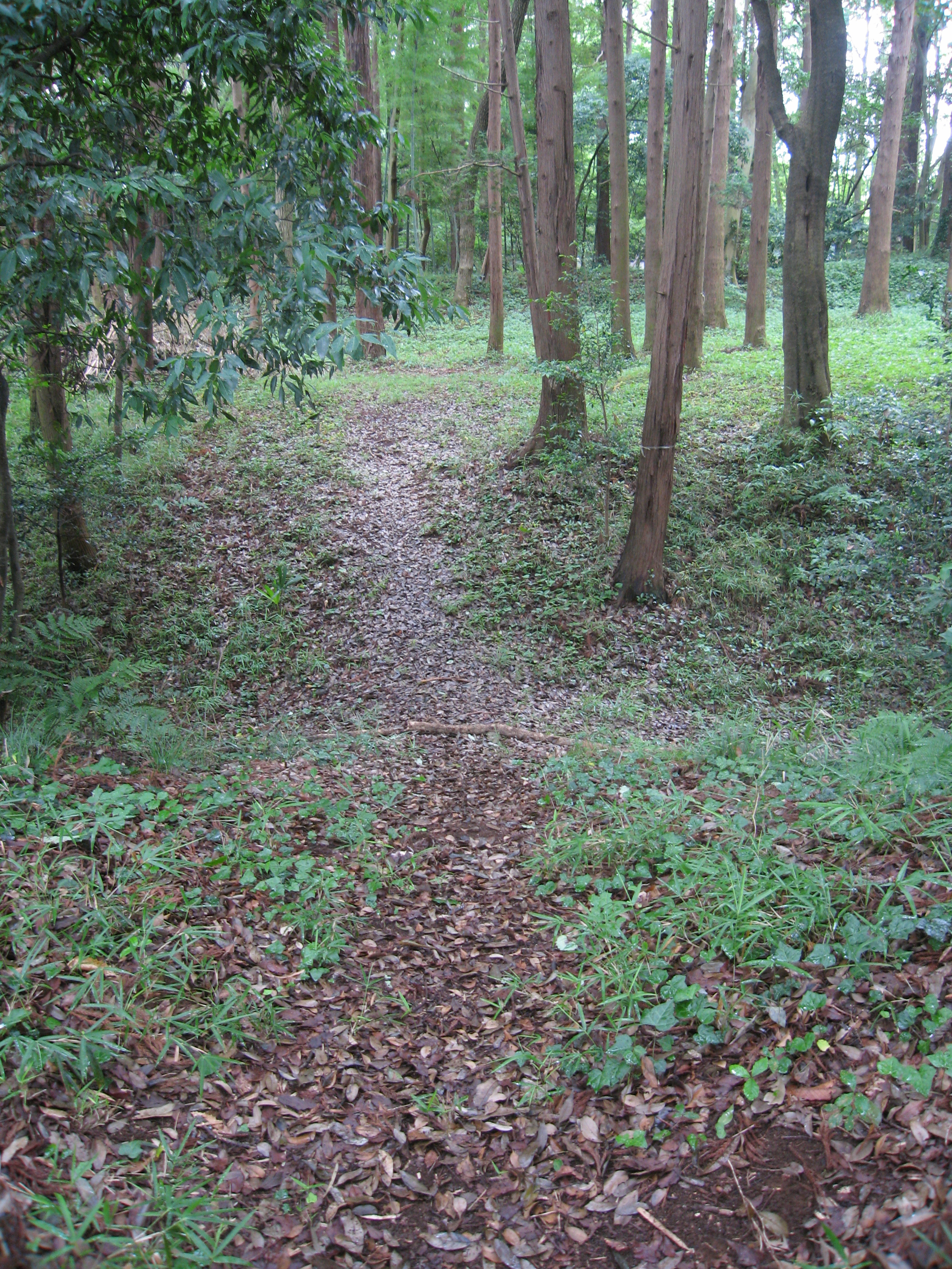 Nedo Castle ruin in Abiko city, Chiba, Japan